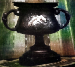 First trophy named "Challenge Steeg" (1920-1945), before "Challenge Louis Rivet" (1946-1956), for competition called "Championnat d'Afrique du Nord de football".